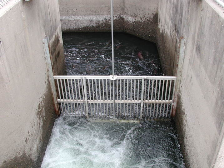 Nimbus Fish Hatchery's end of fish ladder. The hatchery is a facility that replicates spawning environments by creating a fish ladder that guides salmon and steelheads to spawn artificially.